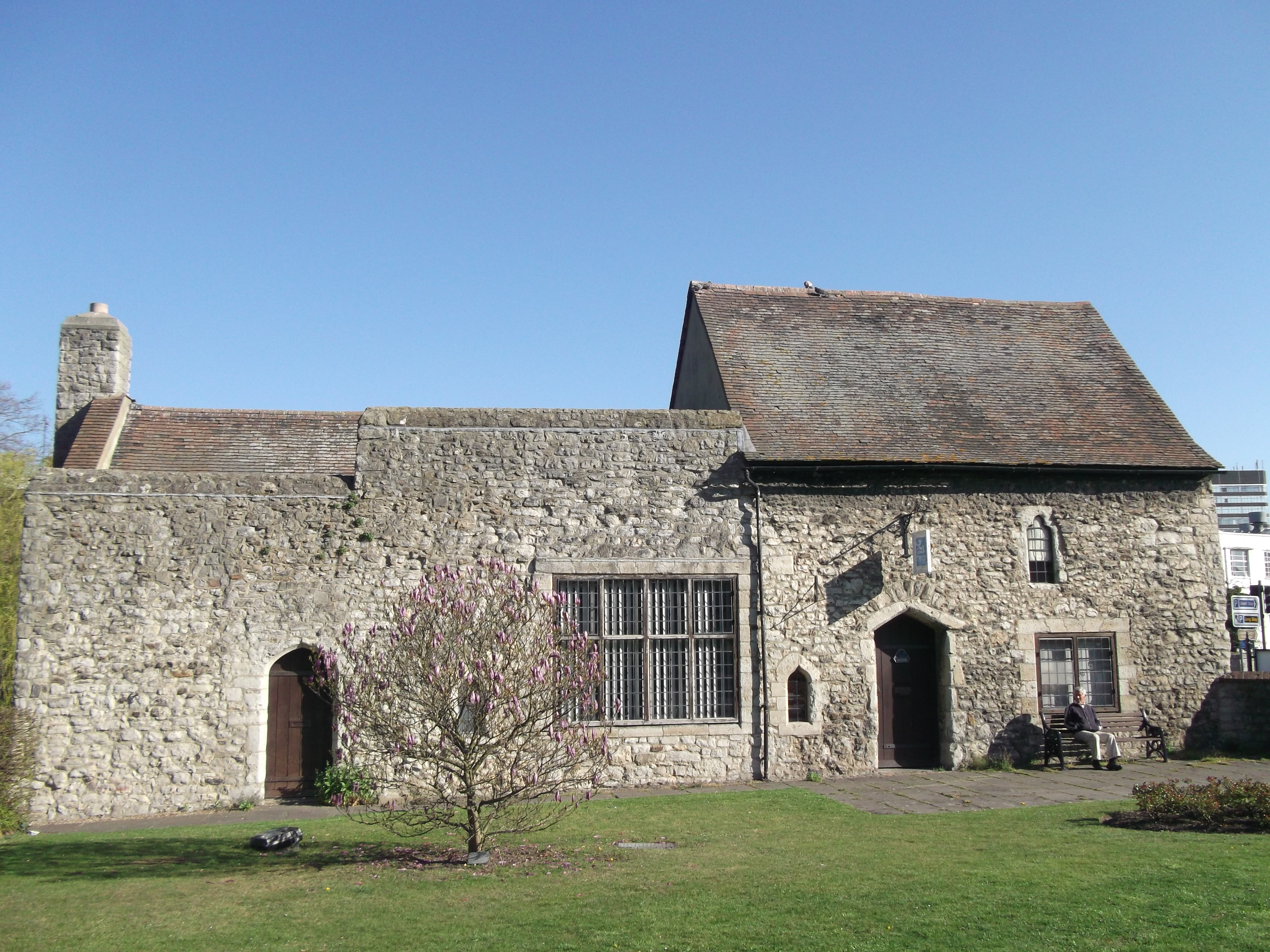 Gatehouse of the Archbishop's Palace, Maidstone